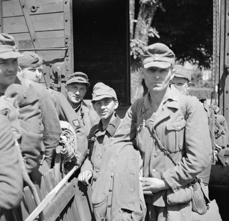 The Schutzstaffeln (ss) Latvian SS prisoners. 2 May 1945.